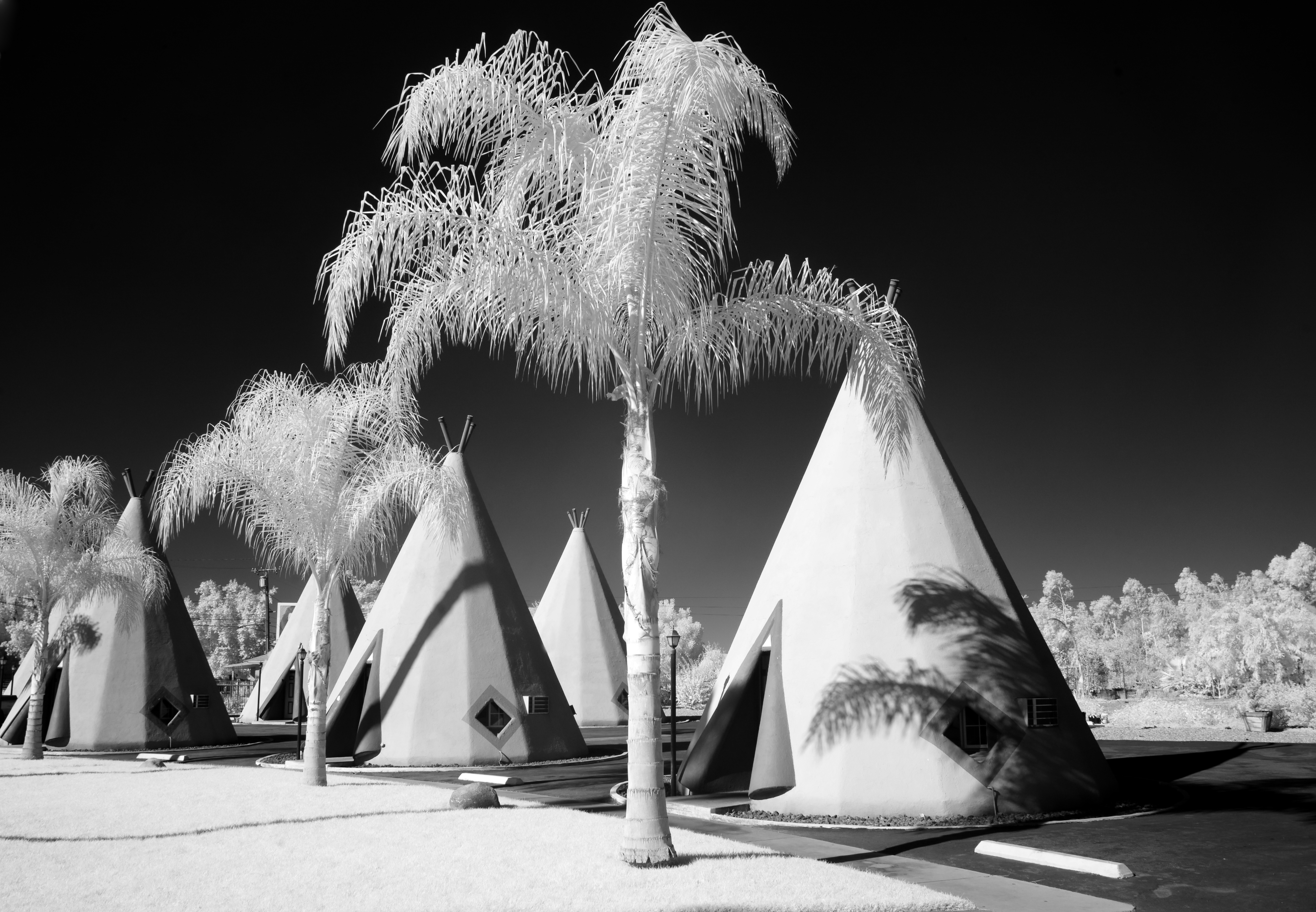 Infrared view of the Wigwam Motel on Route 66 in Rialto, California.